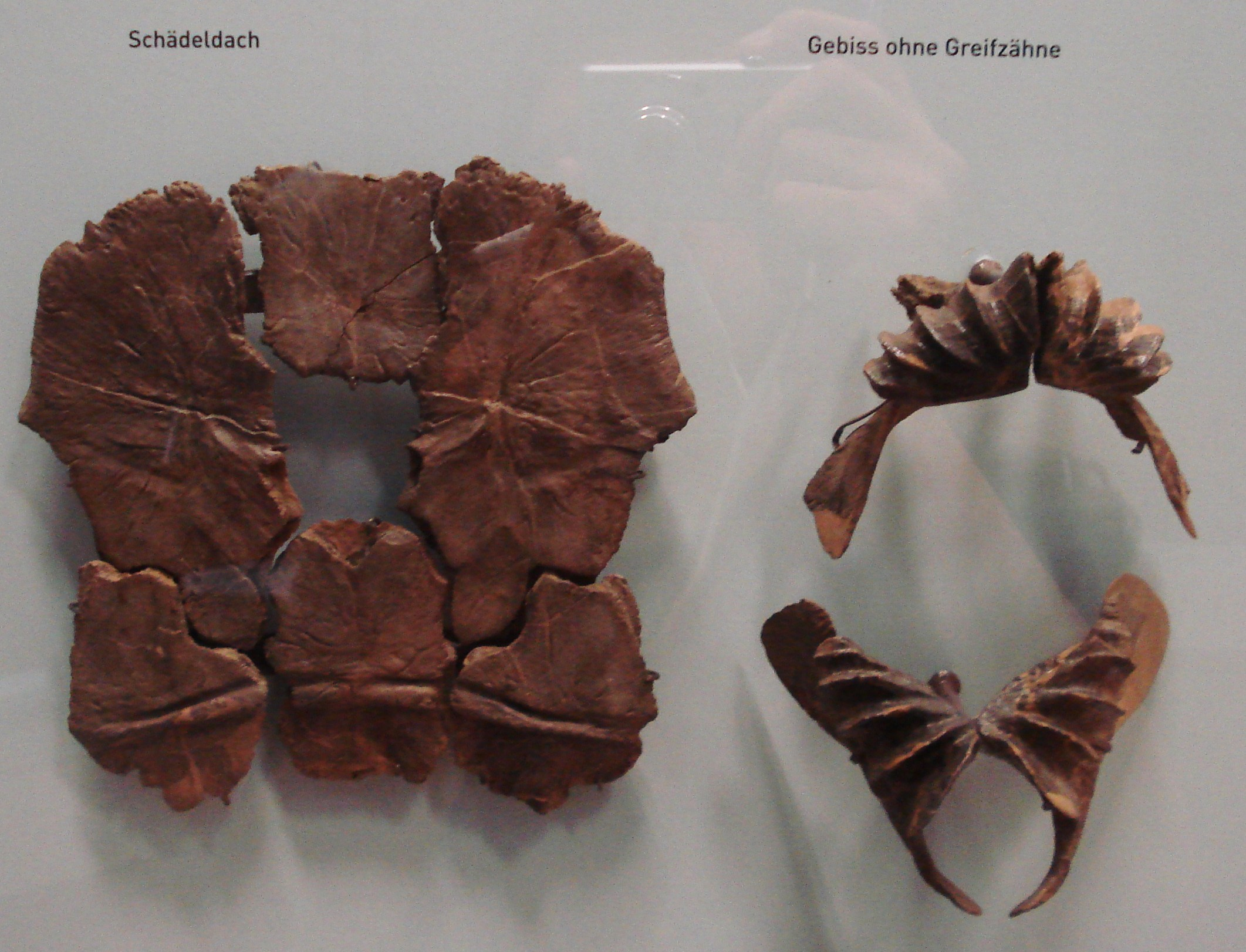 fossil of ptychoceratodus